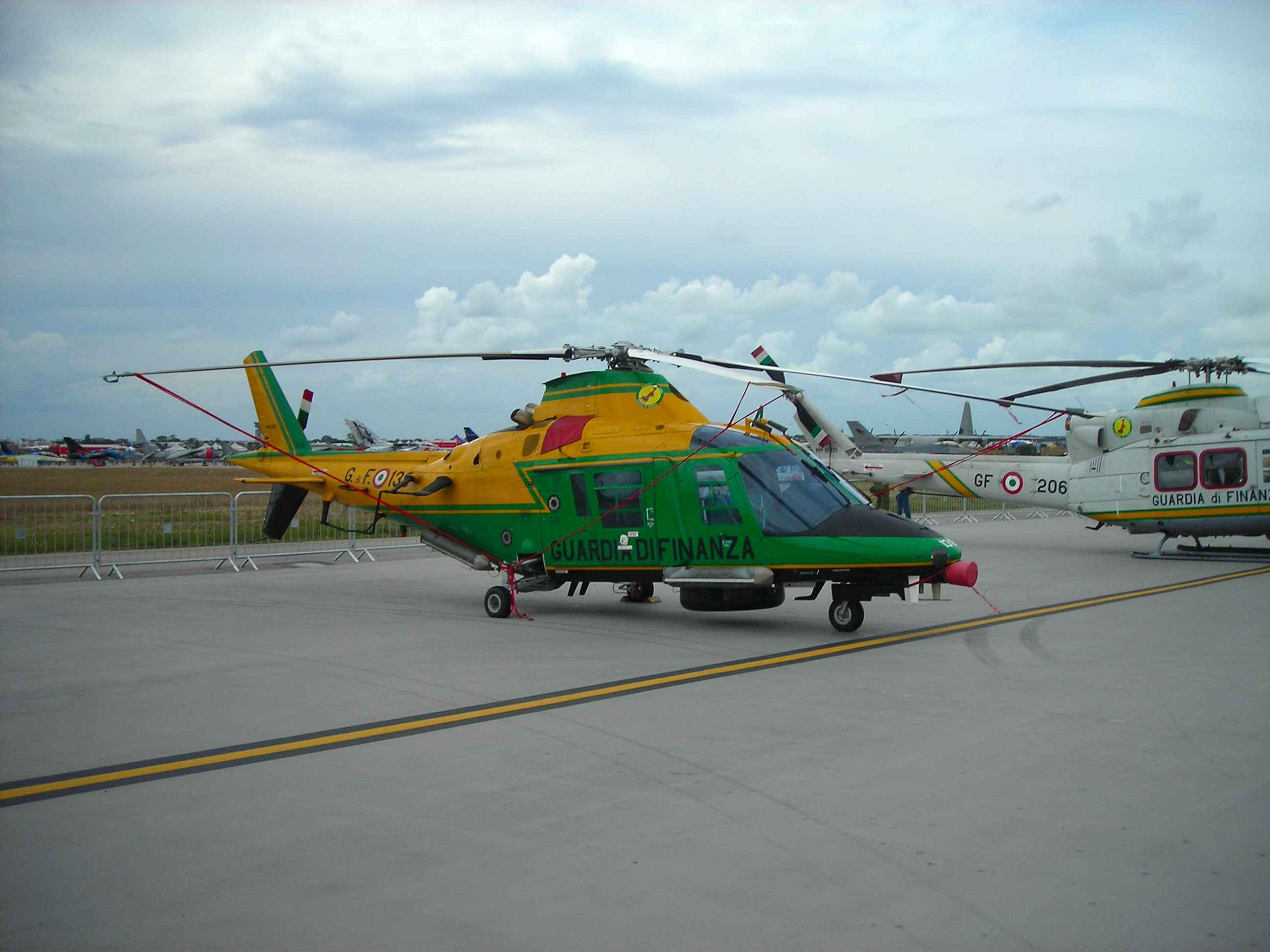 Agusta A109 of Guardia di finanza. Picture taken during "Giornata Azzurra" 2006 (Italian Air Force airshow) at Pratica di Mare AFB, Italy.